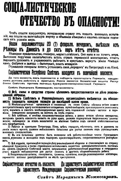 government decree